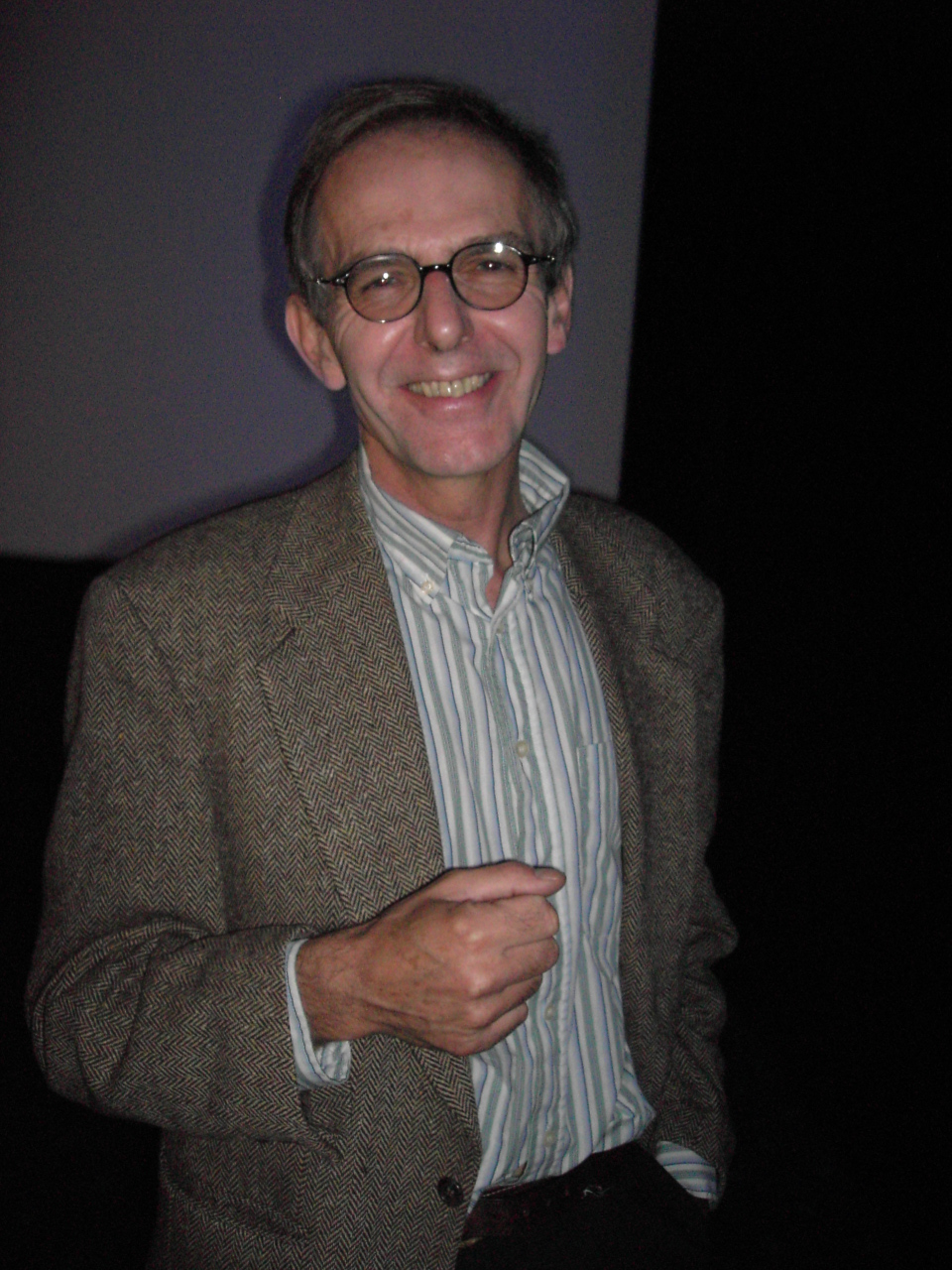 Robert Russell at the premiere of Doom